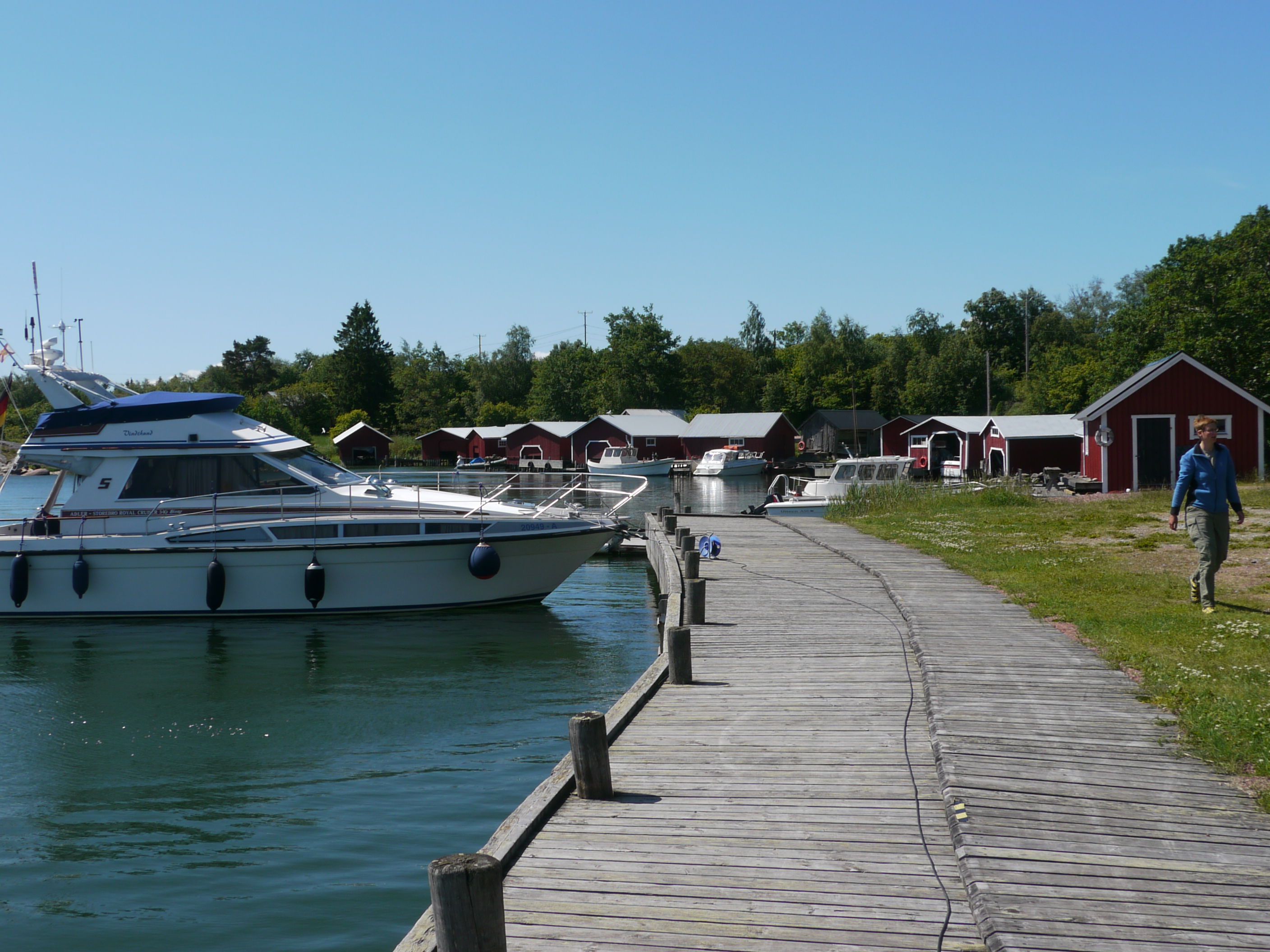 Seglinge marina, south west of Kumlinge, Åland